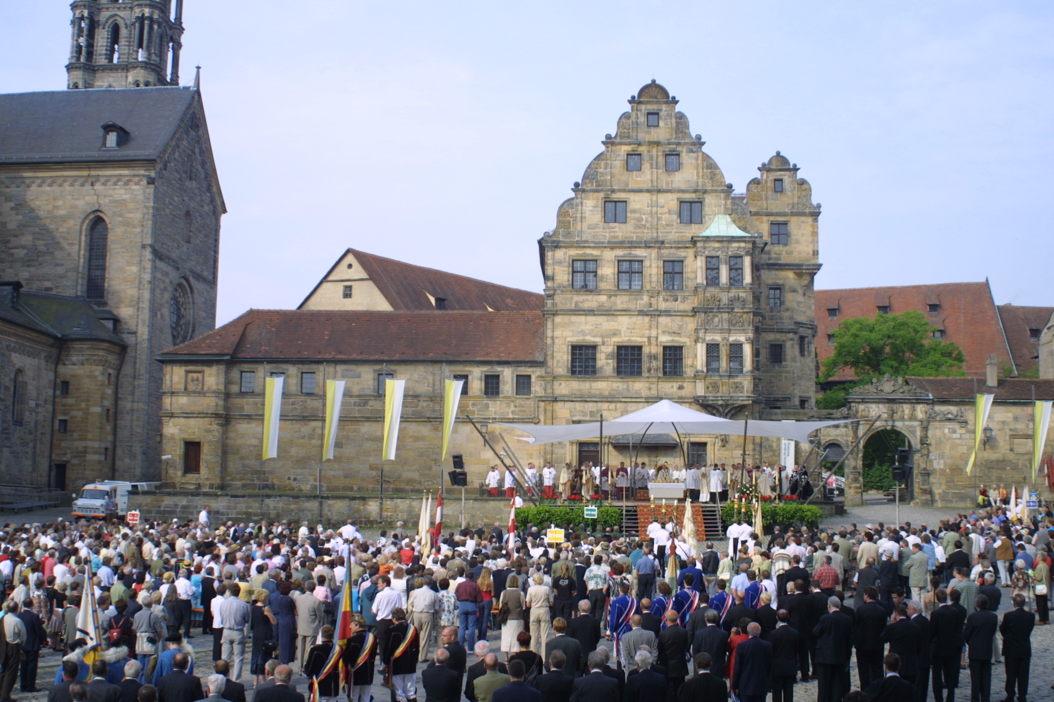 sights of Bamberg, Germany